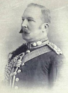 Edward Gawler Prior Publisher: Brantford, Ont. : Bradley, Garretson & Co.